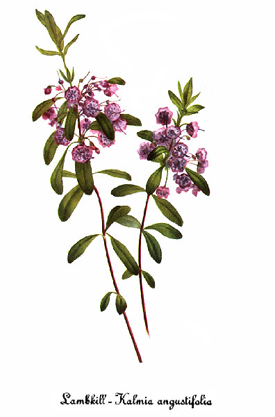 Watercolor painting of Kalmia_angustifolium-2.